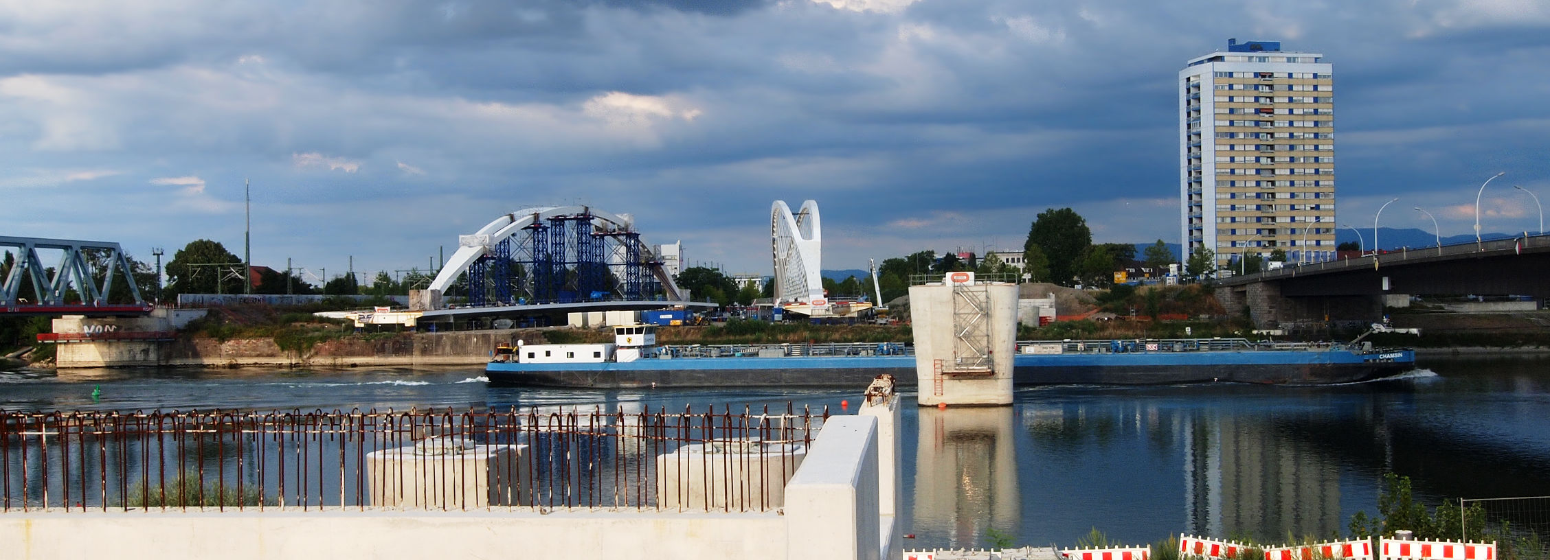 construction of the tram bridge from Strasbourg to Kehl across the Rhine